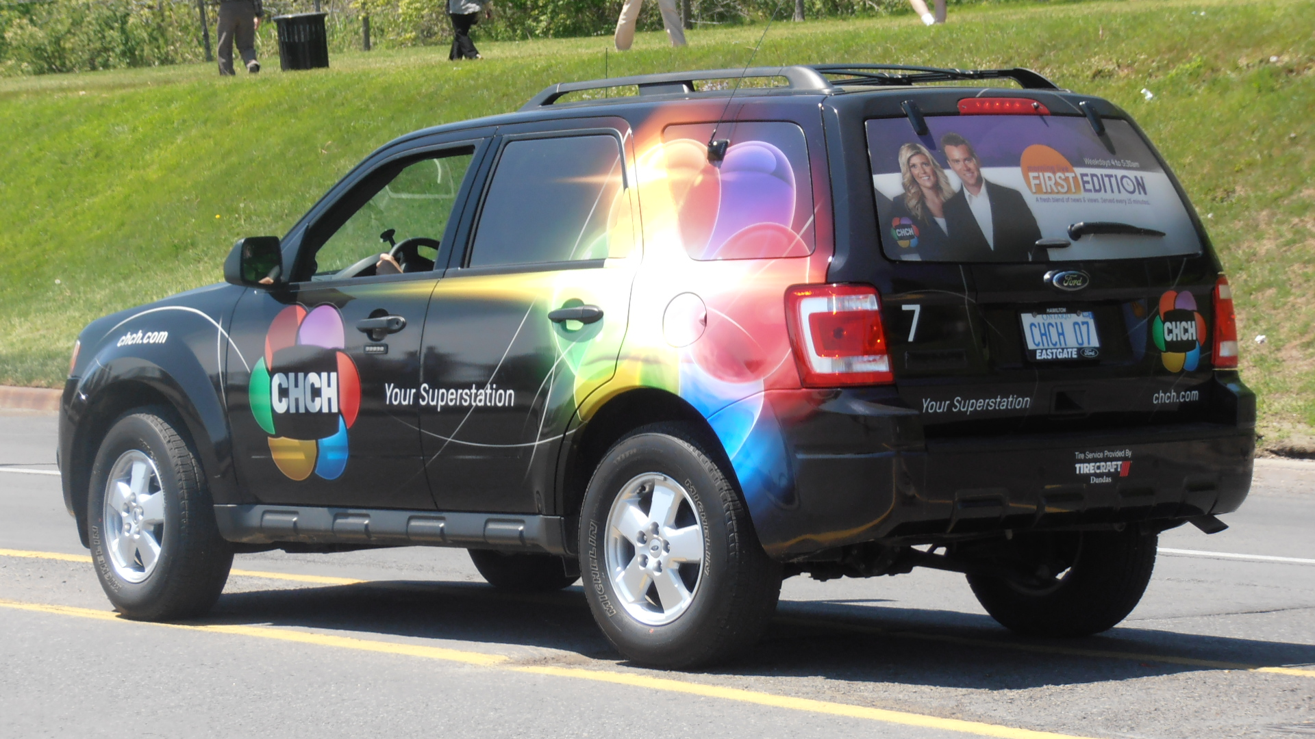 A picture of CHCH's truck, picture taken in Niagara Falls. Summer 2012.